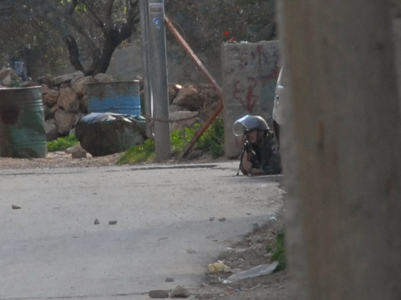 An Israeli soldier in Ni'lin on 6 February 2009.